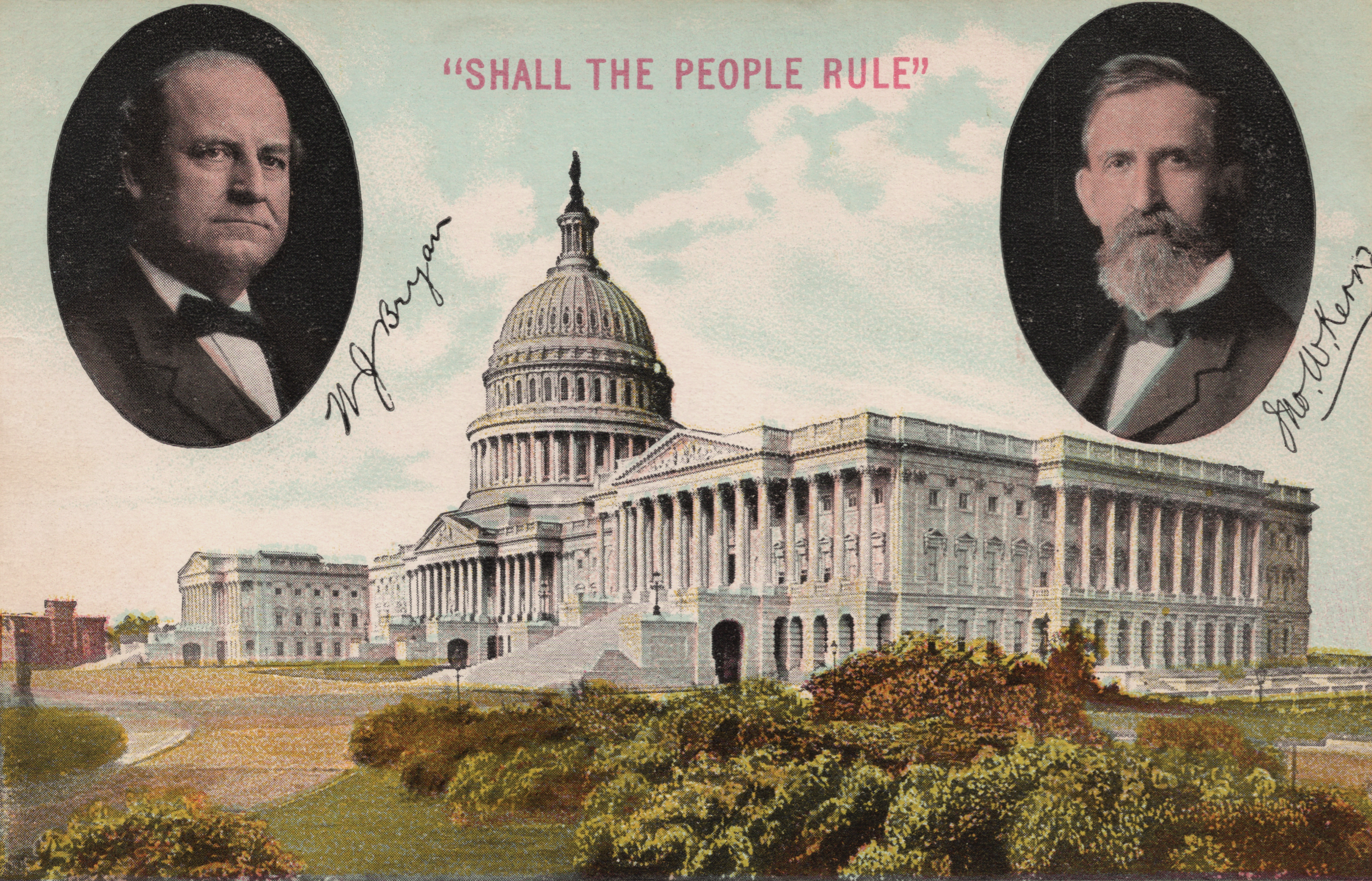 Postcard with photographs of William Jennings Bryan, Democratic Party nominee for President of the United States in 1896, 1900 and 1908, and his 1908 running mate, John W. Kern, and the U.S. Capitol. The back is divided. There is no writing. There is no copyright notice. There is a union 'bug' symbol that reads, "Union Label. L.I.P.A.B.A (unclear), Chicago", and underneath it "THE CLINTON CO. CHICAGO".